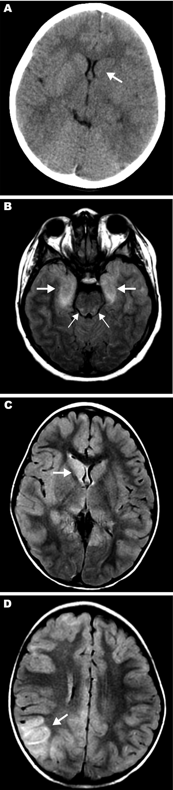 Magnetic resonance images (MRIs) and computed tomography (CT) neuroradiographs showing lesions in brains of 3 children with eastern equine encephalitis. A) Results of noncontrast CT scan of the brain of patient 12 on hospital day 2; the neuroradiograph shows subtle hypoattenuation of the left caudate head (arrow) and diencephalic region. B) Axial fluid attenuated inversion recovery (FLAIR) image from brain MRI scan of patient 14 on hospital day 2; the image shows abnormal T2 hyperintense regions of the bimesial temporal regions (thick arrows) with accompanying abnormal T2 hyperintense regions of the dorsal pontomesencephalic regions (thin arrows). C, D) FLAIR images from brain MRI scan of patient 15 on hospital day 3. C) Abnormal T2 hyperintense caudate and thalamic nuclei, most prominent on the right (arrow). D) Abnormal T2 hyperintense regions are most prominent in the right parietotemporal gray matter (arrow) and subcortical white matter but are also seen scattered throughout.